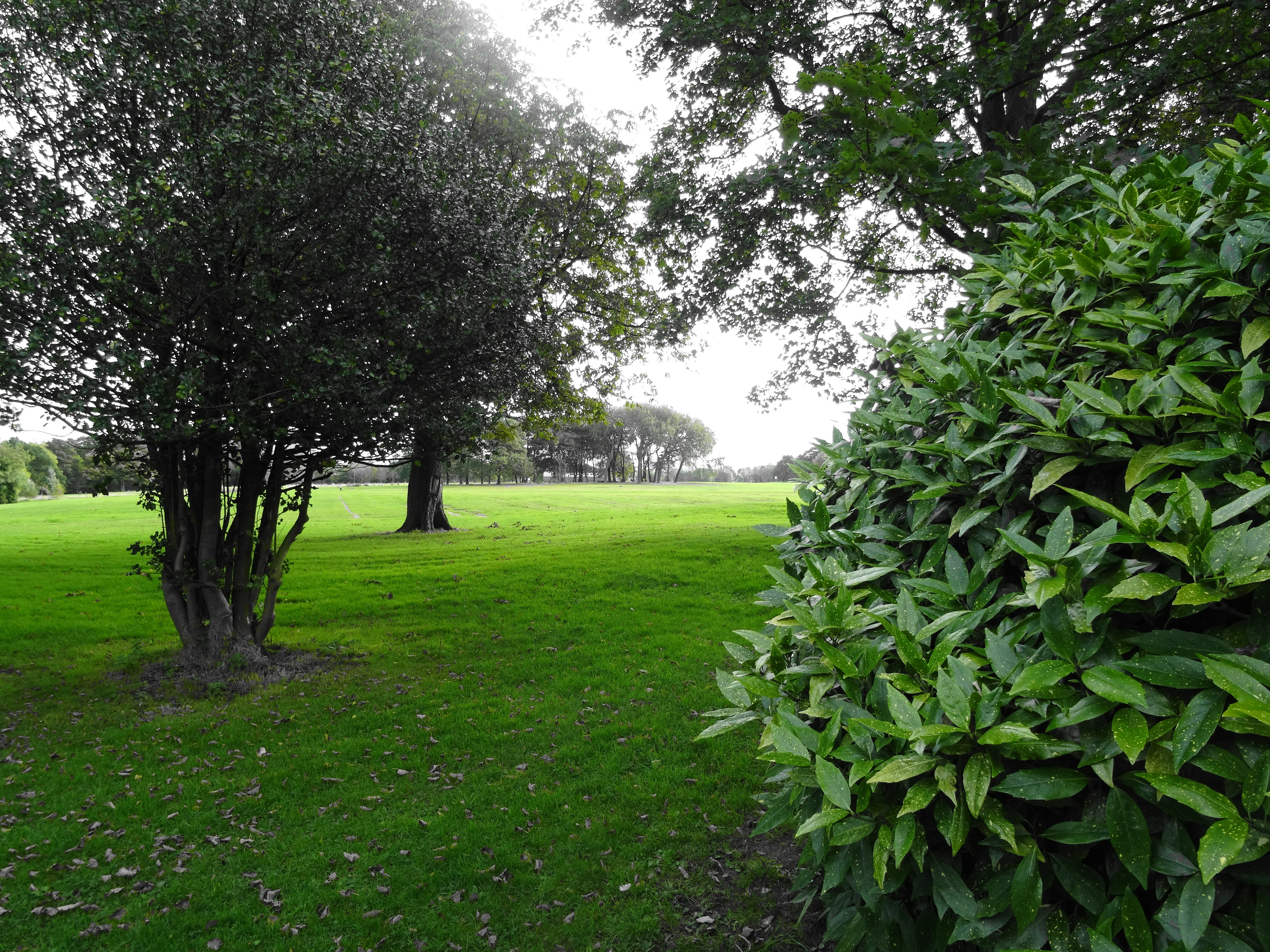 Photograph of Moor Park, Preston looking west towards Deepdale.